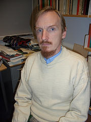 Timothy Winter alias Abdal-Hakim Murad at Cambridge